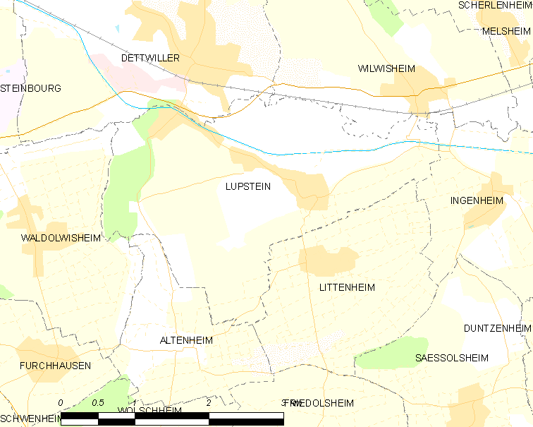 Map of French municipality